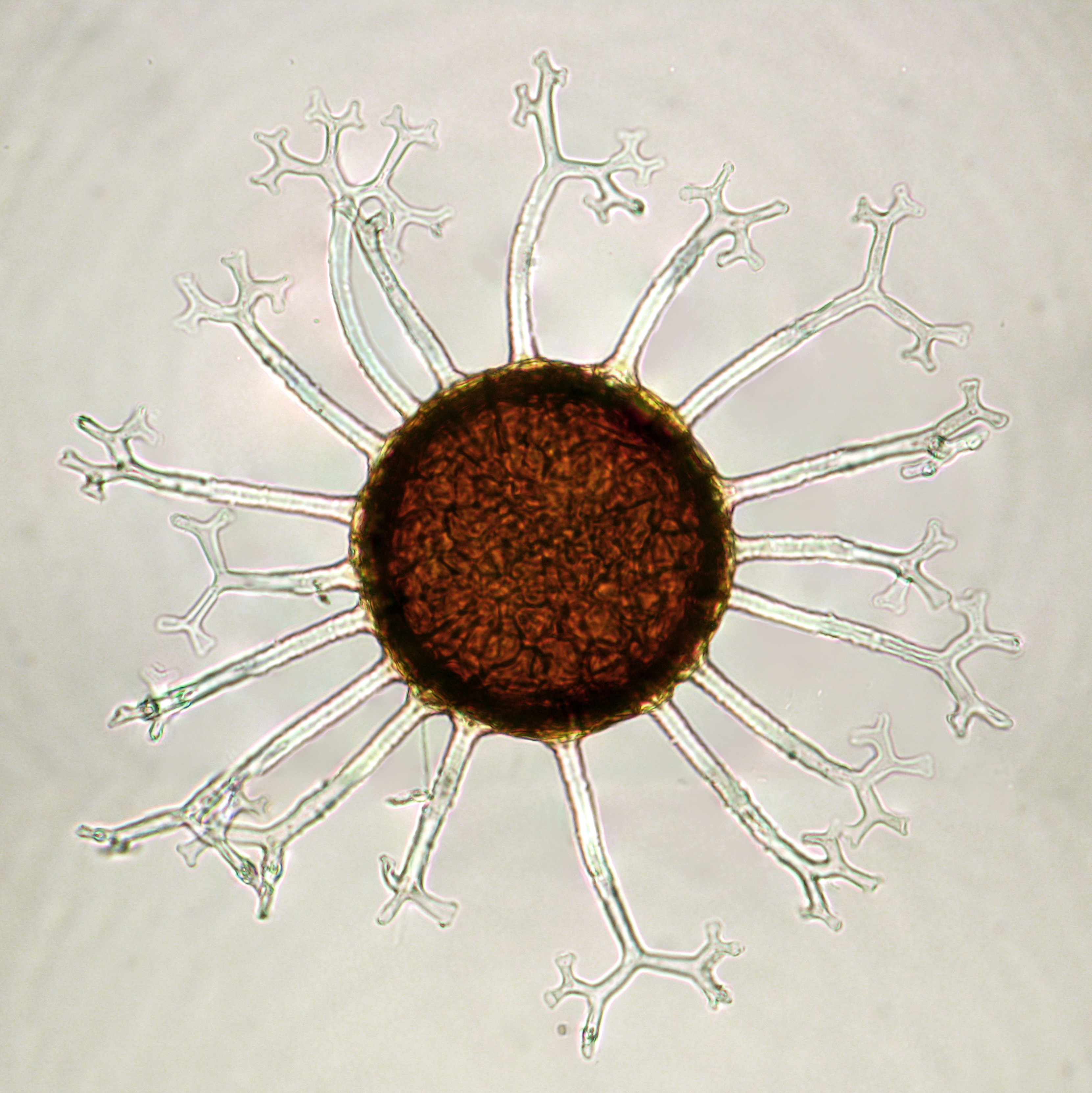 Cleistothecium of plant-parasitic powdery mildew fungi Microsphaera alphitoides Griffon & Maubl. (syn. Erysiphe alphitoides) on the leave of common oak (Quercus robus L.). Donetsk.